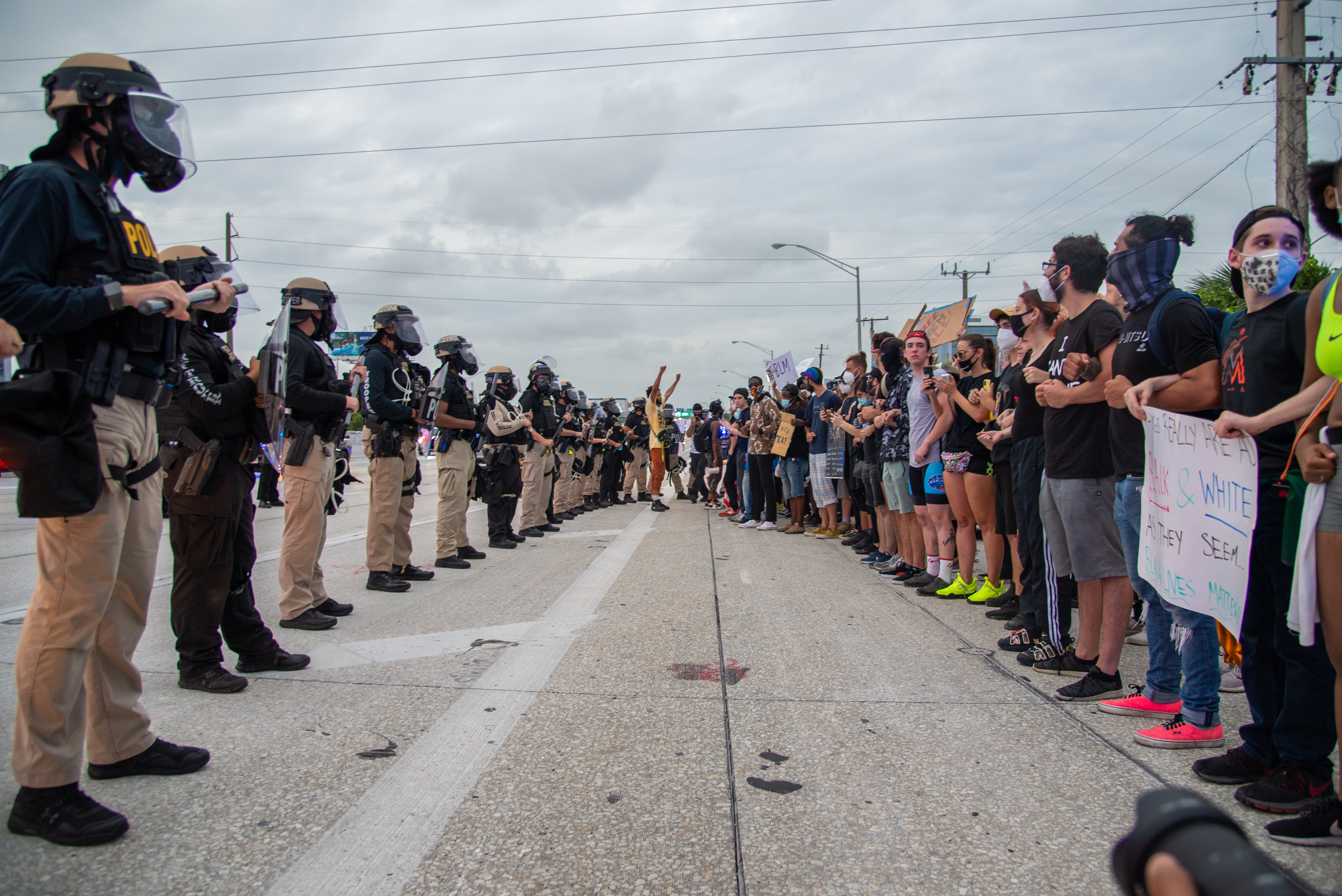 George Floyd protests on their ninth day in Miami